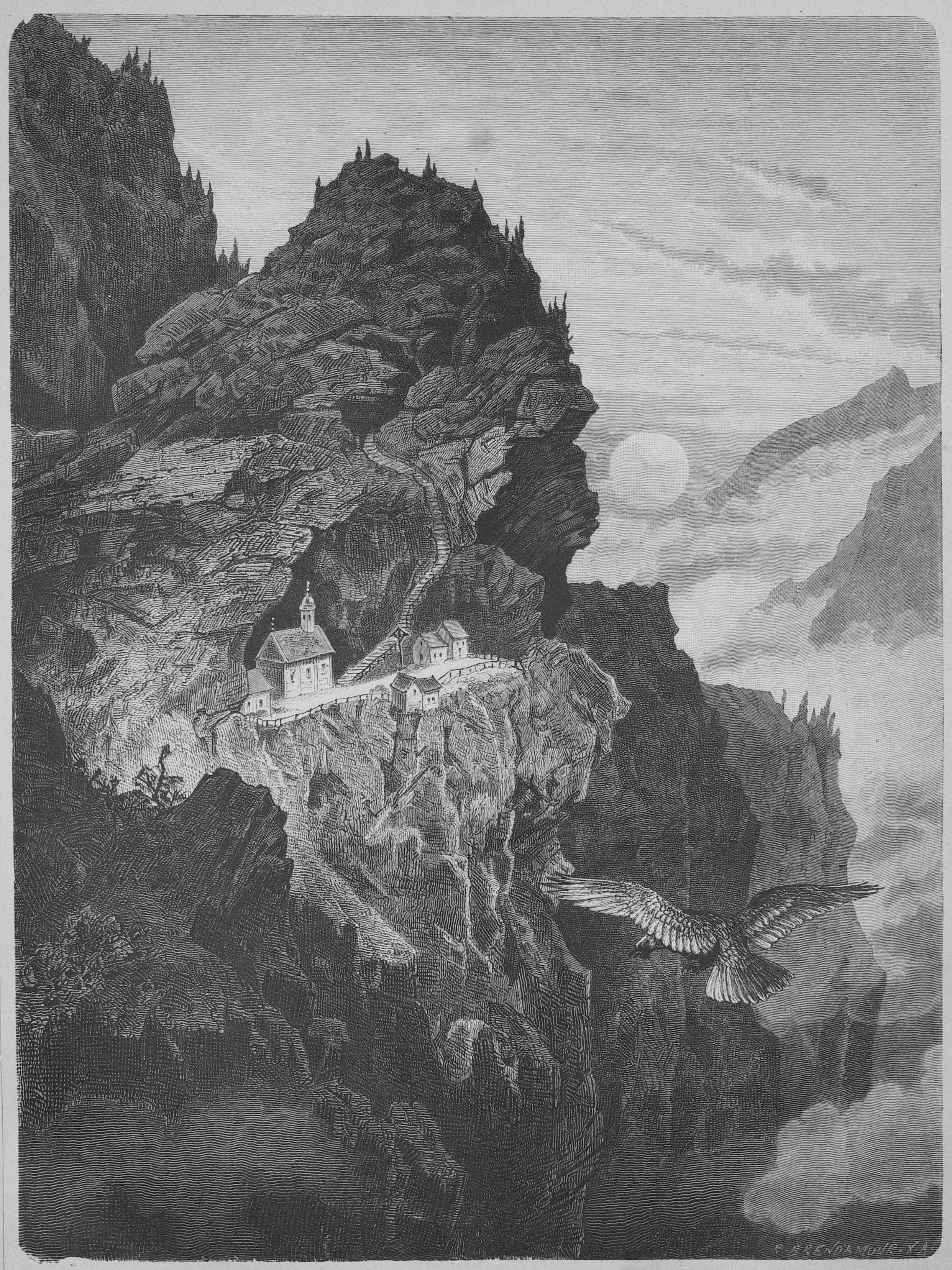 caption: "Wallfahrtscapelle Schüsserlbrunn in Steiermark. Nach einer Original-Zeichnung von Robert Zander in Wien."